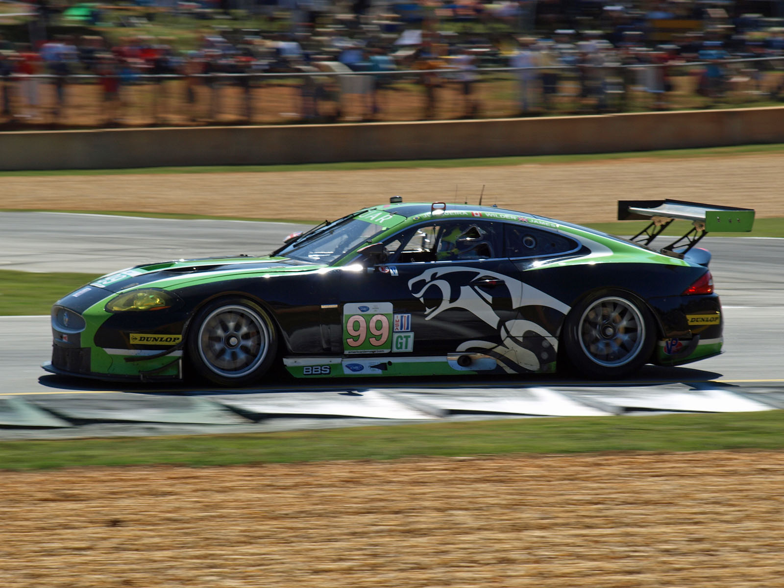 Bruno Junqueira driving the Rocketsports Racing Jaguar XKR GT in the 2011 Petit Le Mans at Road Atlanta.